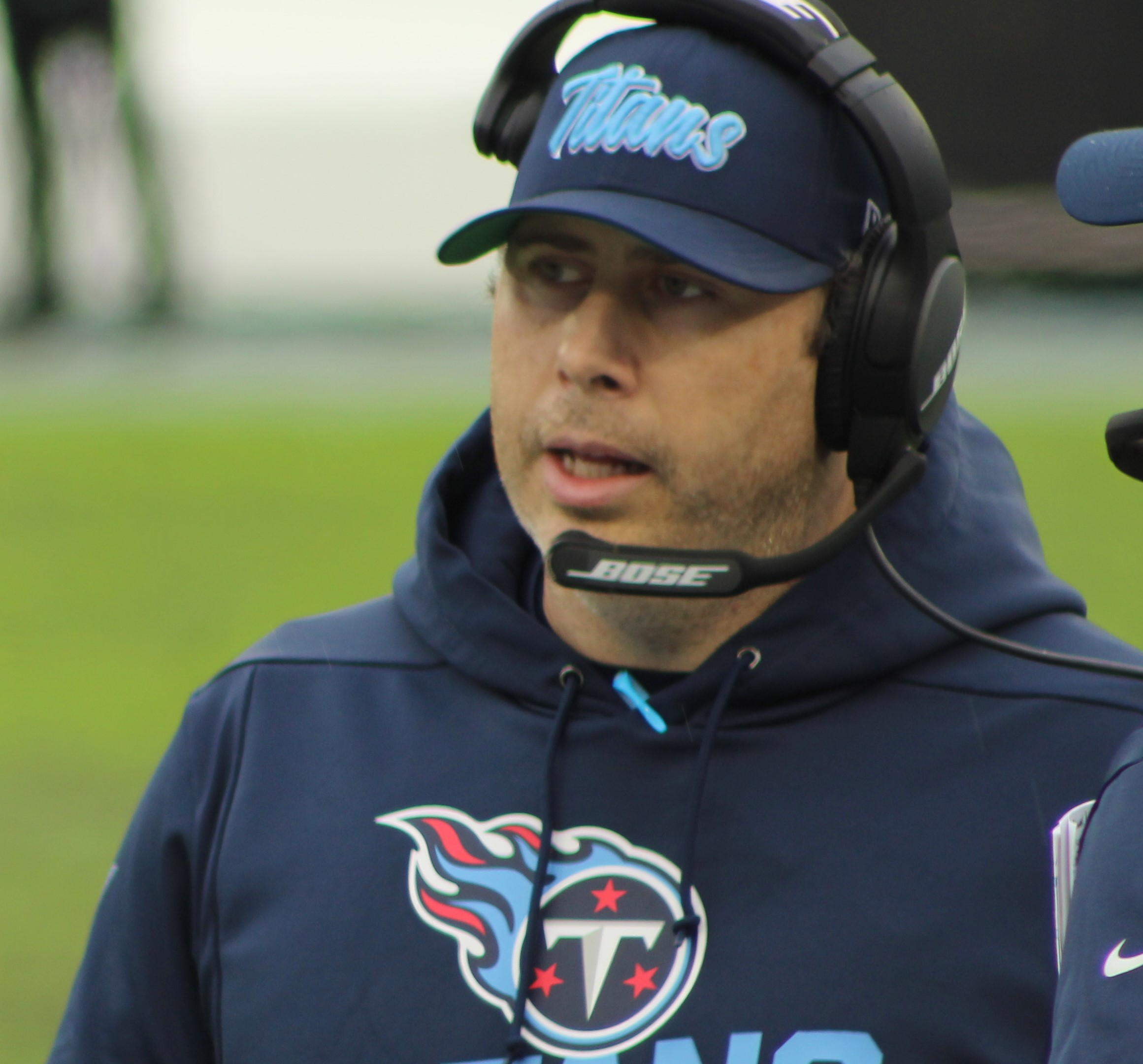 Smith with the Titans on December 22, 2019